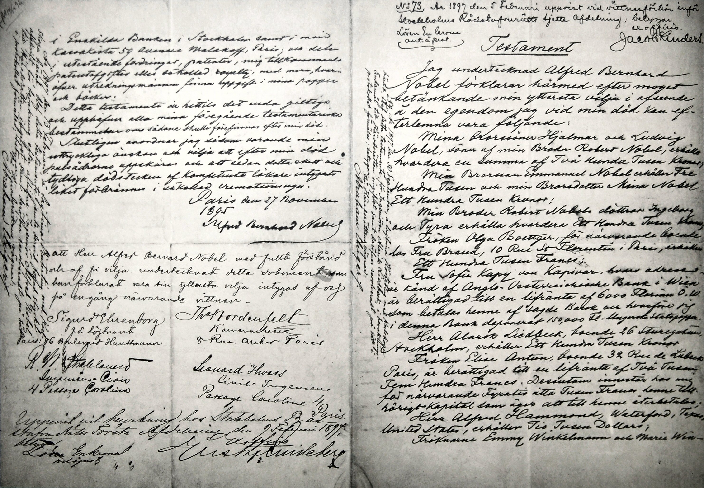 Alfred Nobels last will dated november 27th, 1895